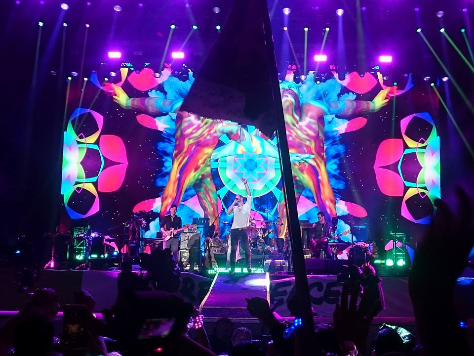 View of the stage during Coldplay's headlining performance at the Glastonbury Festival, 26 June 2016.